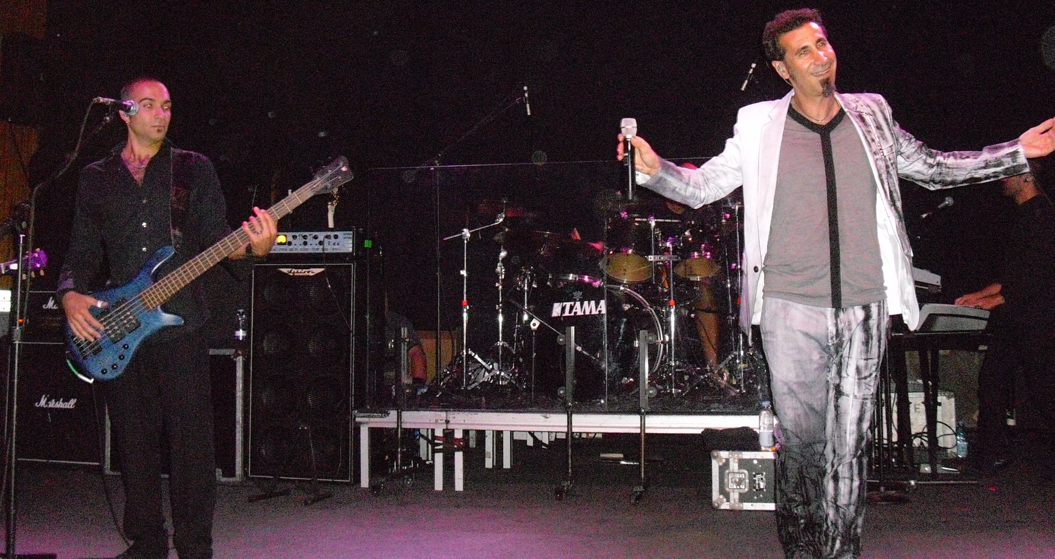 Serj Tankian performing in Gothenburg, Sweden in august 2010.